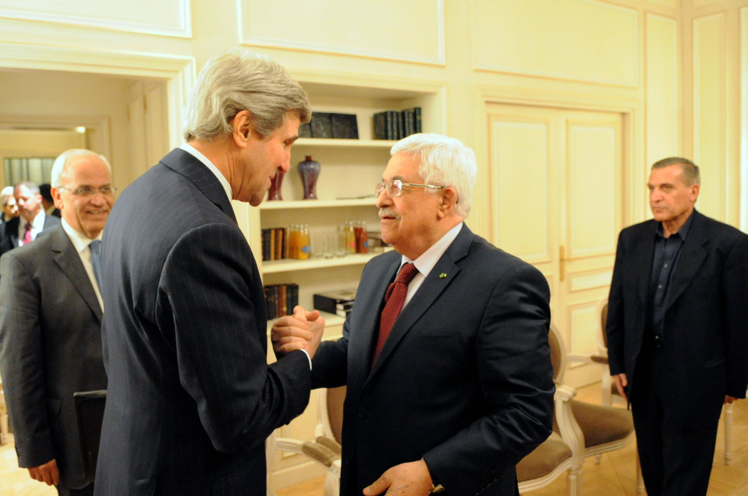 U.S. Secretary of State John Kerry and Palestinian Authority President Mahmoud Abbas shake hands before a meeting in Paris, France, on February 19, 2014. [State Department photo/ Public Domain]